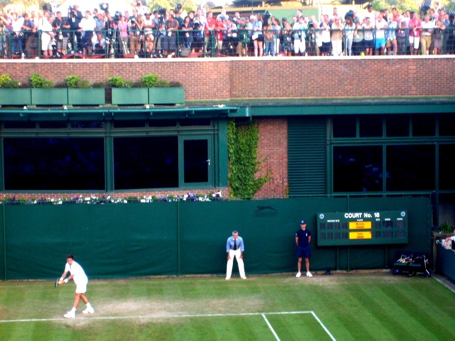 Scoreboard blackout during the Isner-Mahut match at Wimbledon 2010 (photo taken at 7.52pm on June 23). Wa can also see Mahut serving.